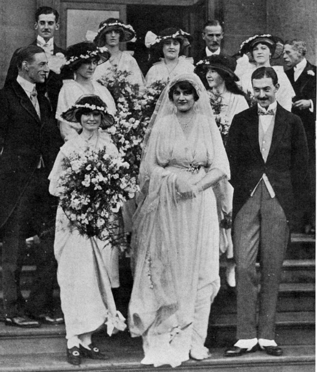 Wedding of Mark Sturgis of Greyfriars House, Guildford, 1914